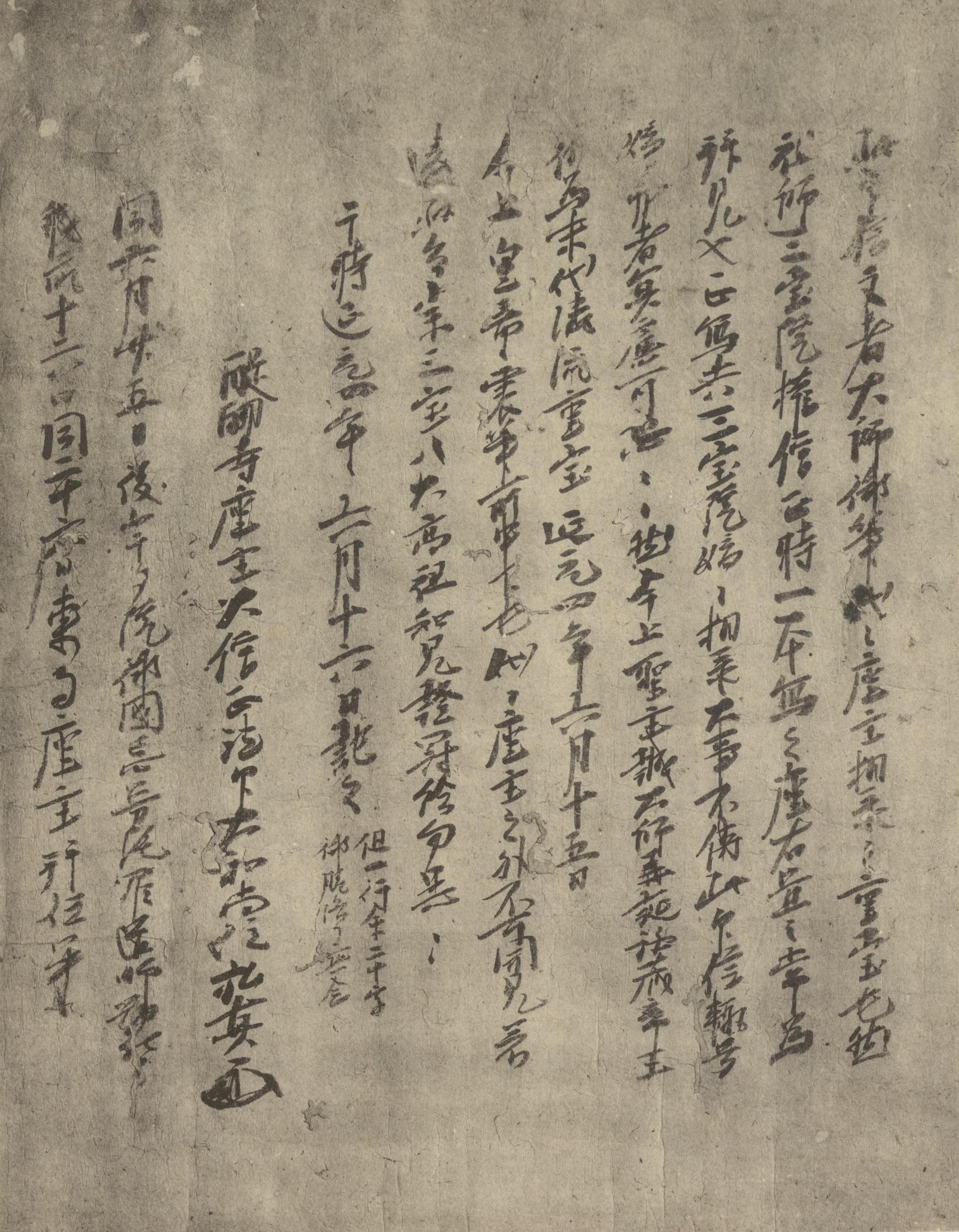 Okugaki (postscript) by Monkan for Go-Daigo Tennō Shinkan Tenchō Injin (Rōsen). See also File:Go-Daigo Tennō Shinkan Tenchō Injin (Rōsen).jpg.